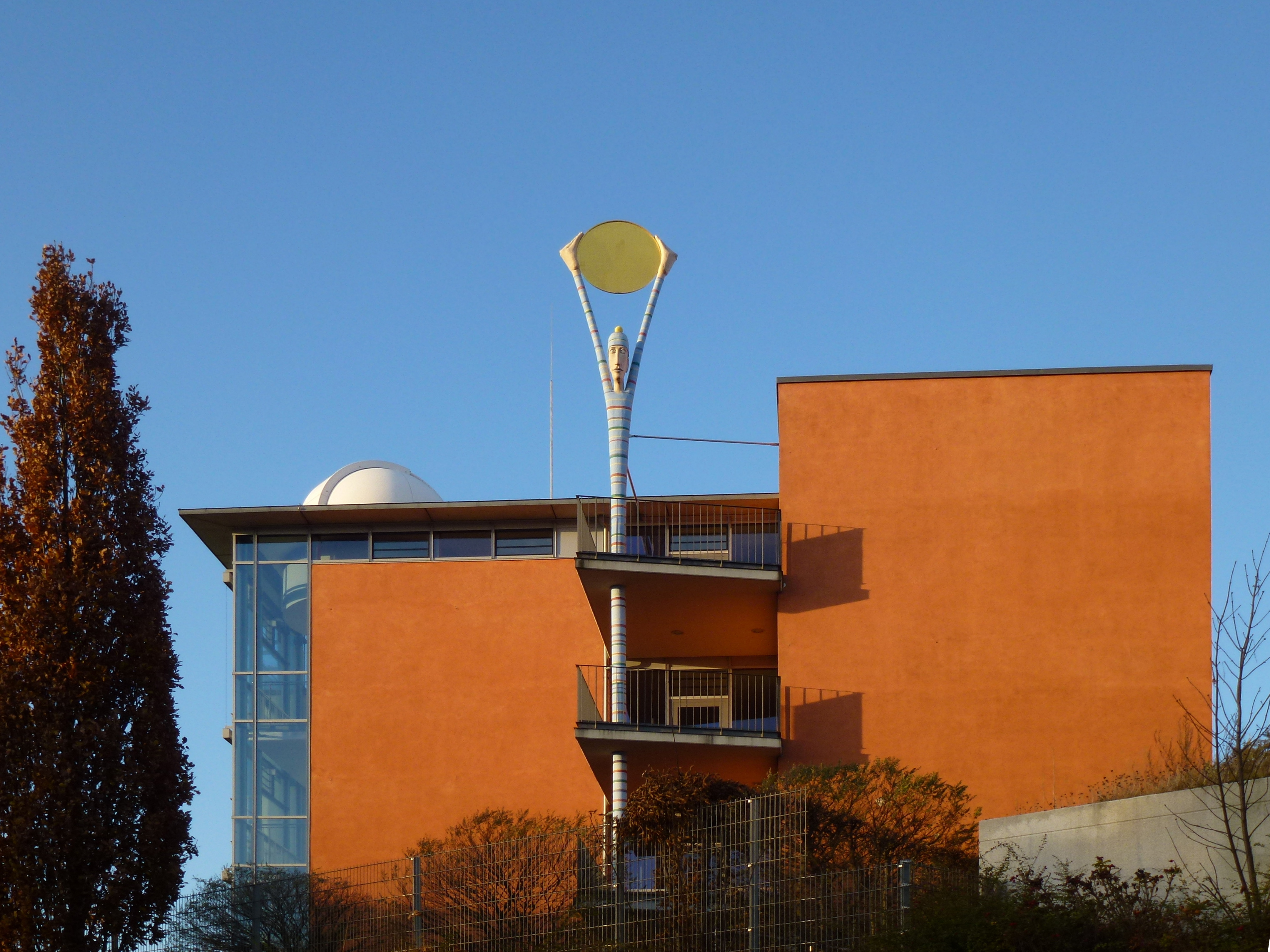 Gymnasium Radeberg, view from the east